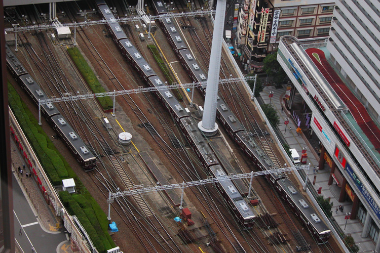 Hankyu Railway trains departing Umeda Station simultaneously